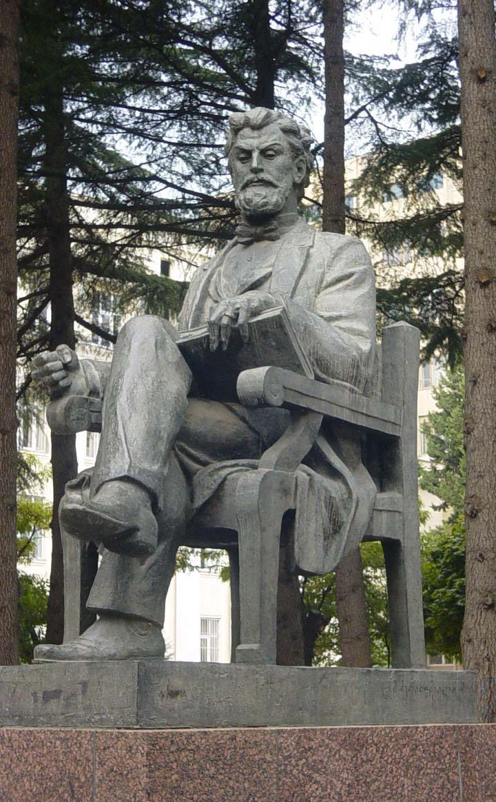 Tarkhanov's bust